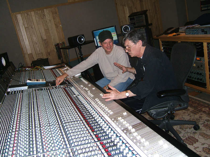 George Landress and Yury Chernavsky. Track Studios, Hollywood SSL SL 6068 E Series (64 mono & 4 stereo) SSL G Series Studio Computer w/Total Recall